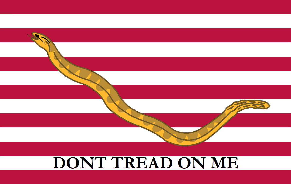 Naval jack of the United States from October 1975 to December 1976; this differs from the September 2002 to June 2019 version in that the snake doesn't have red spots.